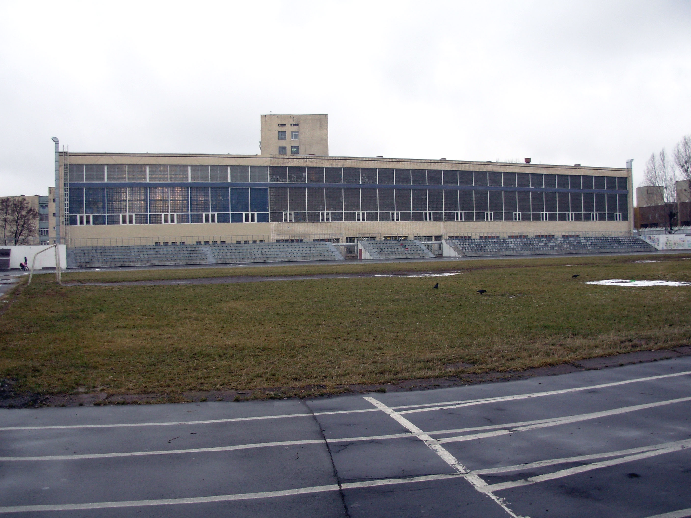 KNUBA Stadium in Kyiv, Ukraine